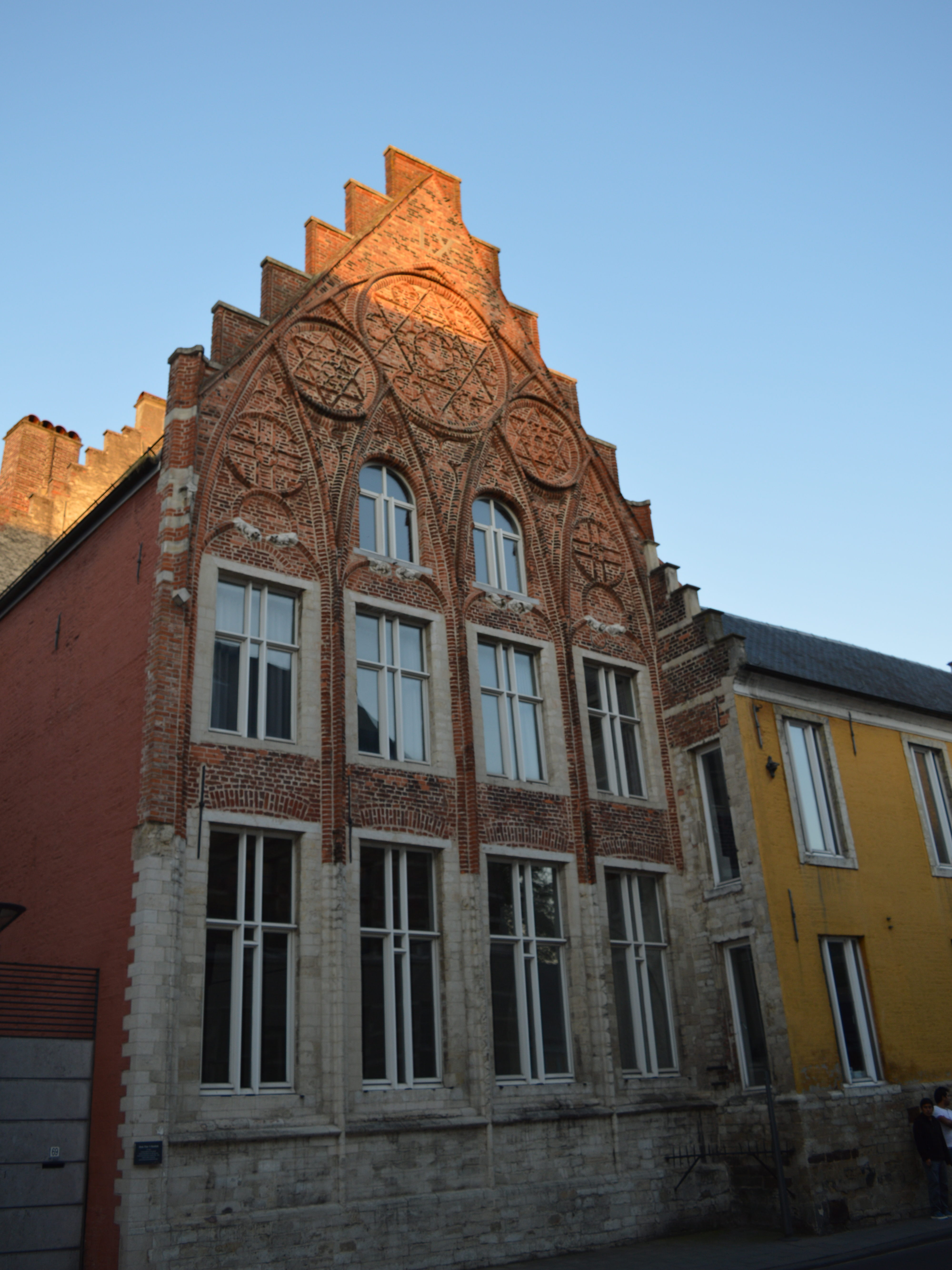 Suggest a title